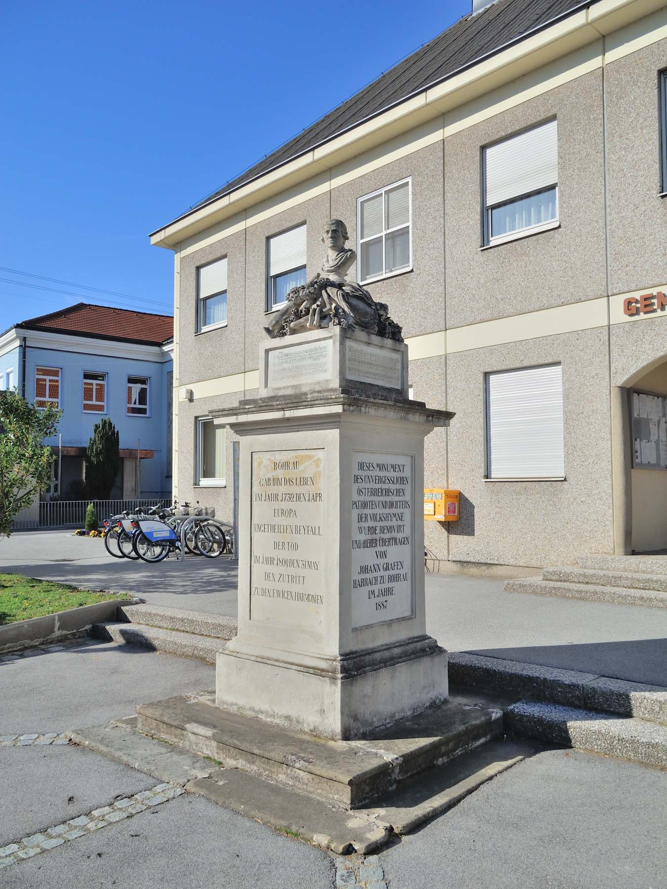 Joseph Haydn monument in Rohrau, Lower Austria, Austria